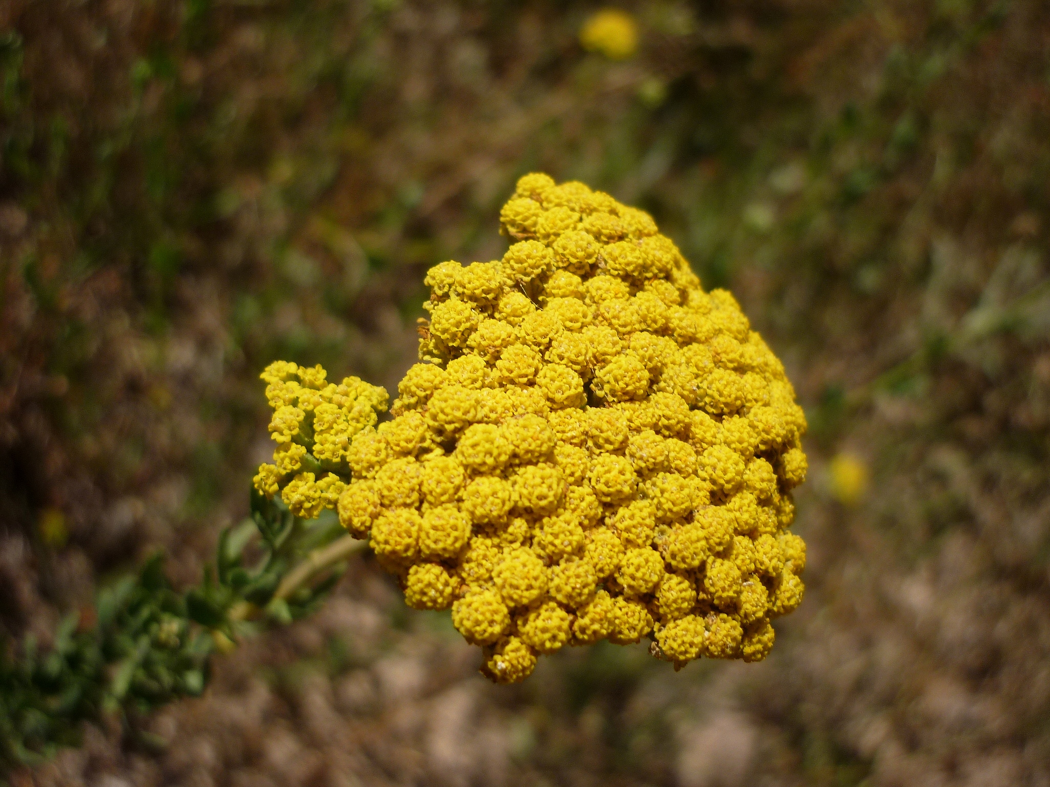 Achillea ageratum . In Pinós (Solsonès - Catalunya), at 710 m. altitude